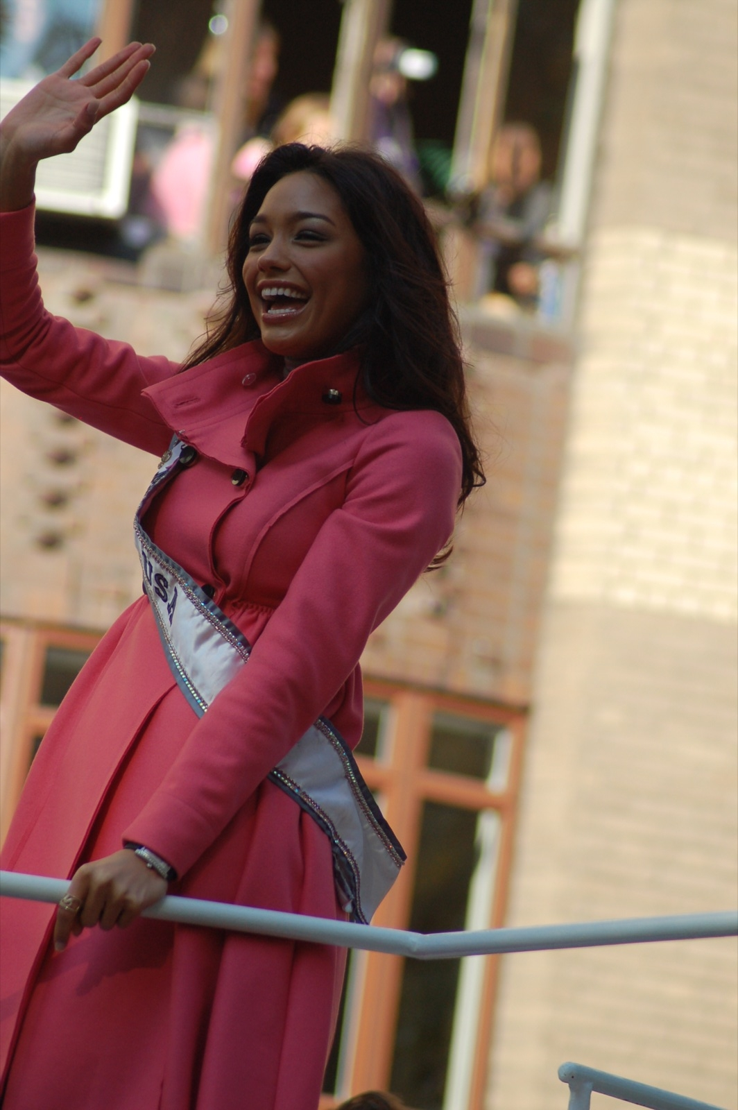 Miss USA 2007 Rachel Smith in the Macy's Parade